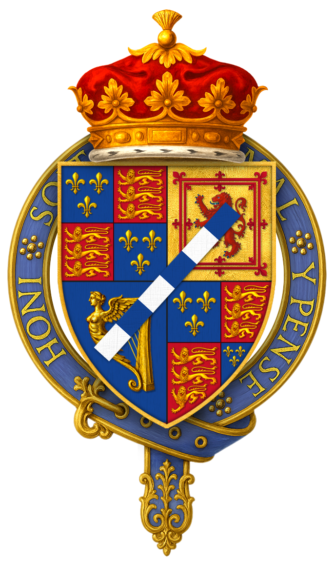 Coat of Arms of Hugh FitzRoy, 11th Duke of Grafton